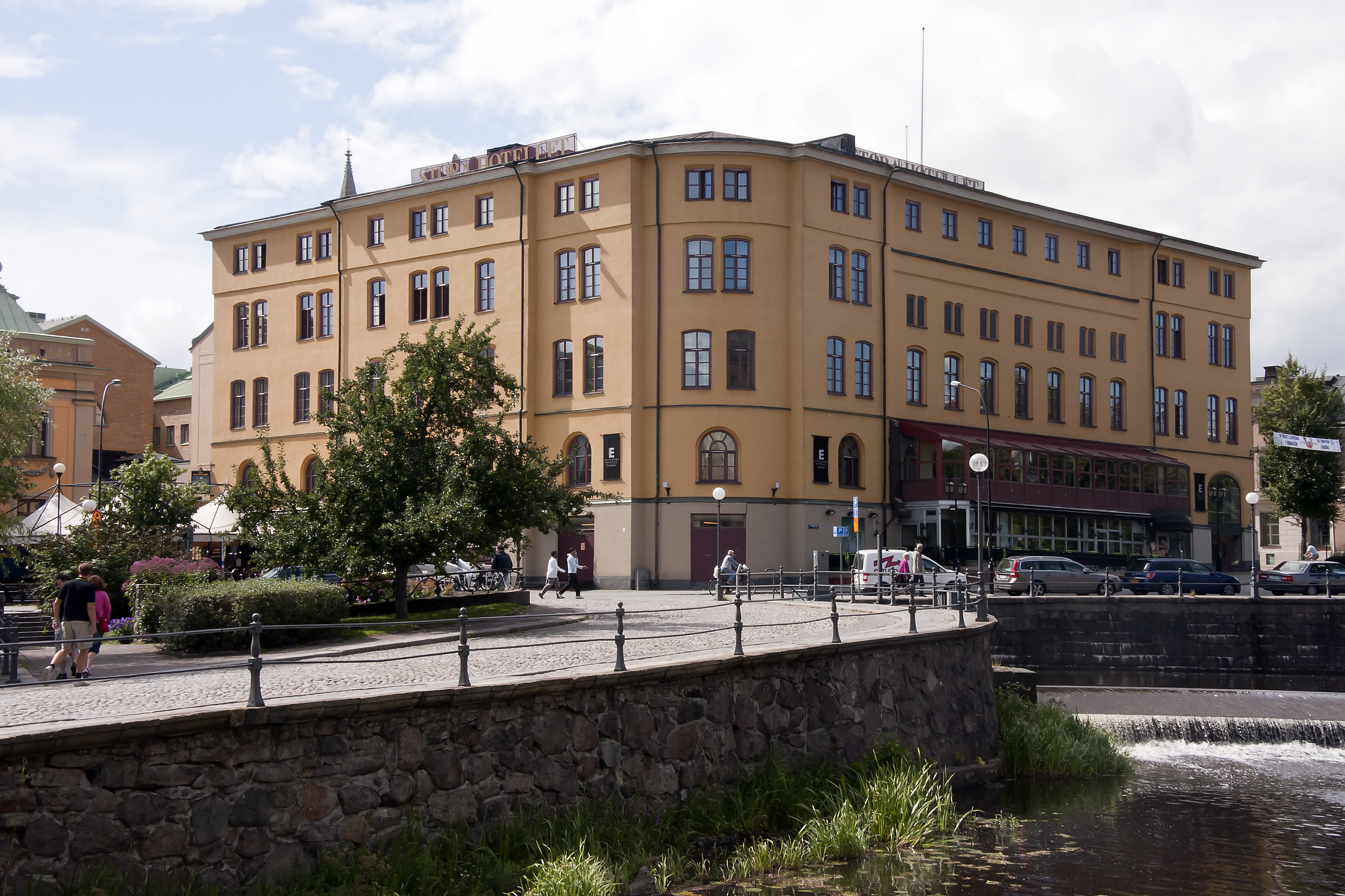 Stora hotellet, hotel in Örebro, Sweden.